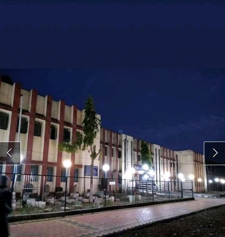 School Building of Jawahar Navodaya Vidyalaya Bohani